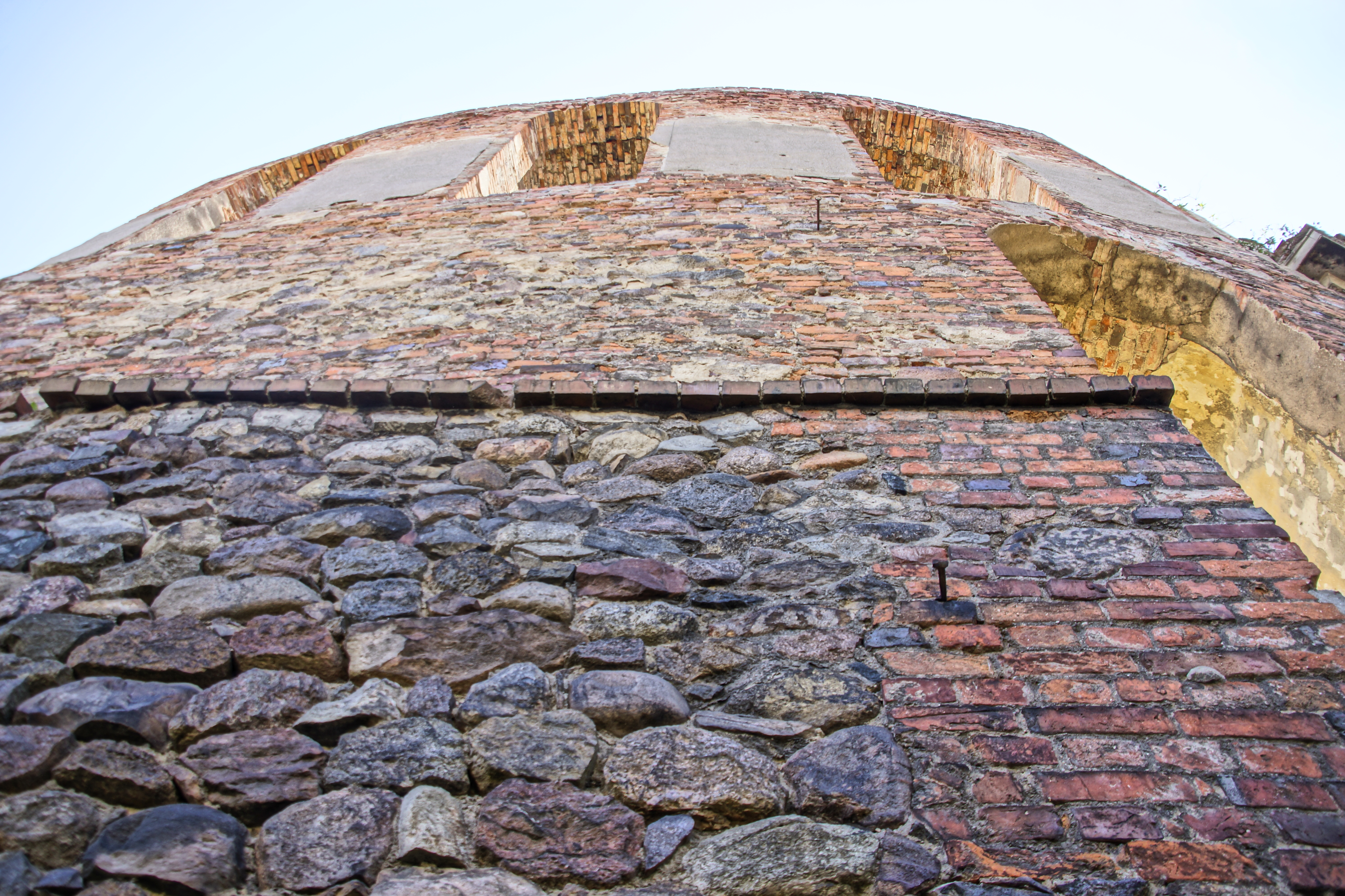 the walls of the protestant church in Szprotawa showing its medieval origins